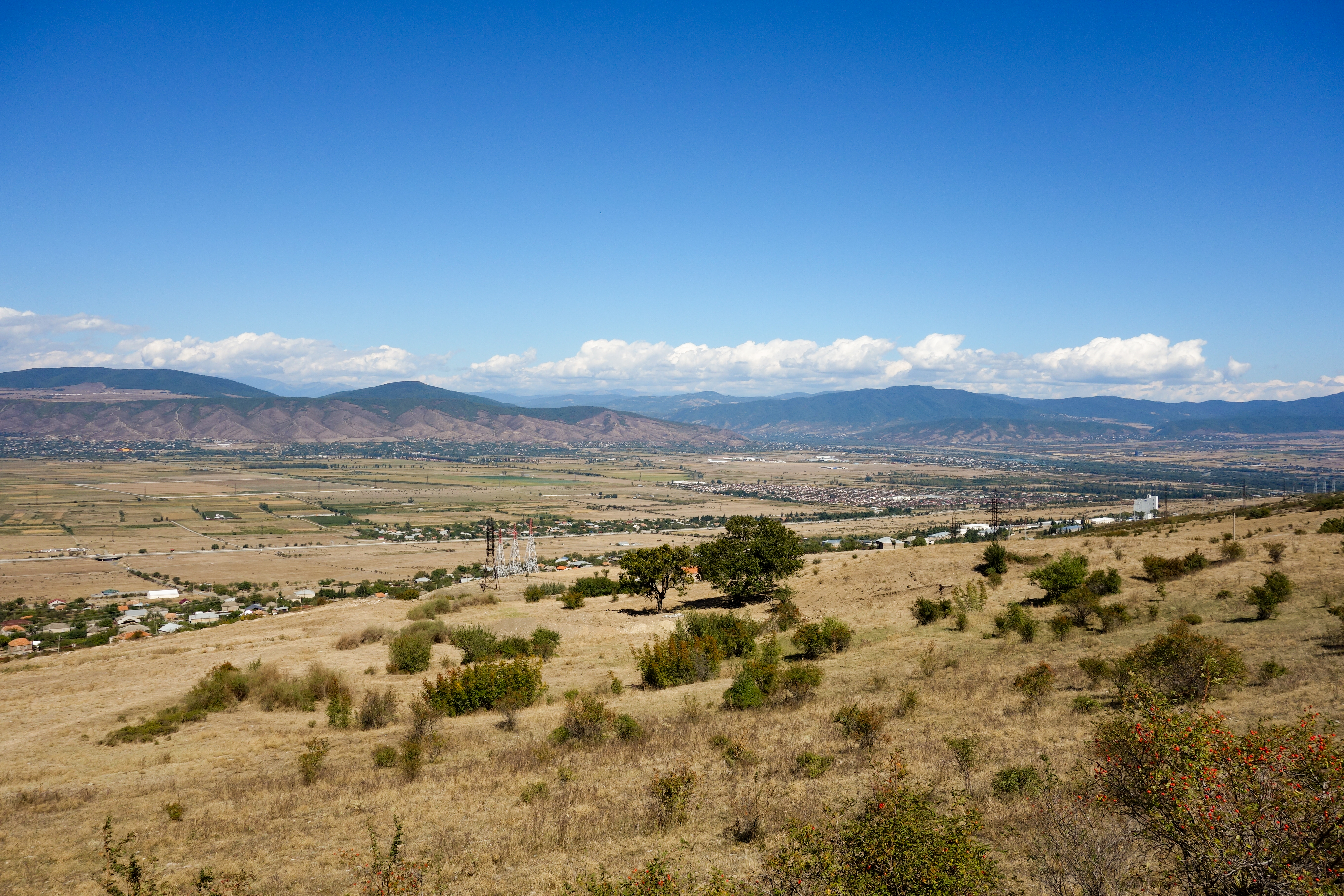 Mukhran-Saguramo Plain (view from Gorovani-Skhaltba) 1